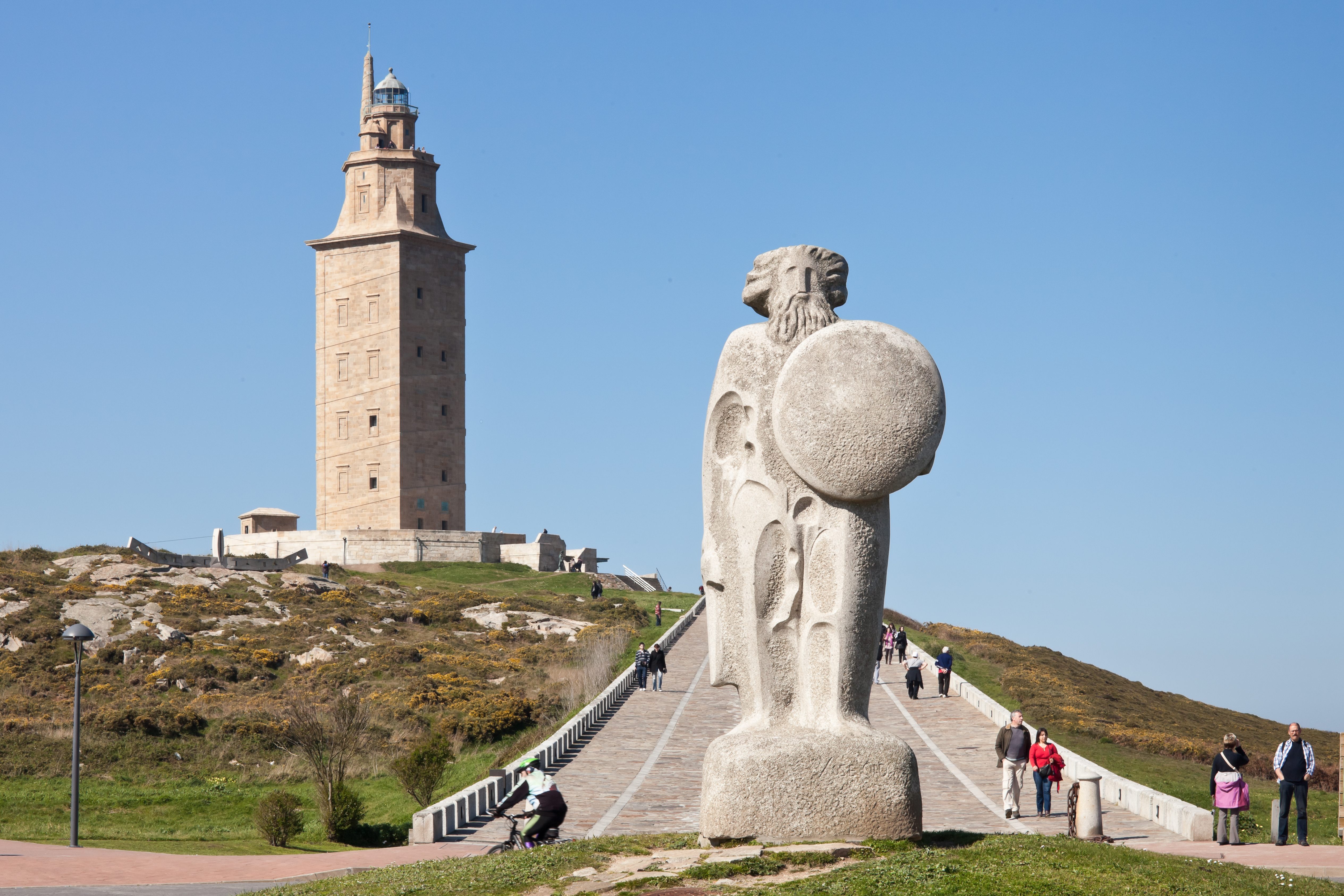 Breogan and the Tower of Hercules, A Coruña, Galicia